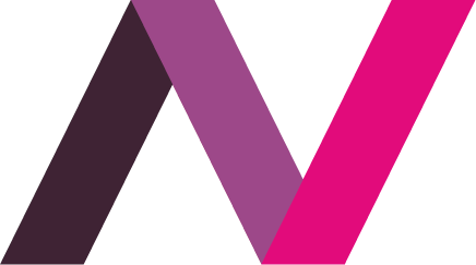 Logo for Voddler's streaming technology Vnet